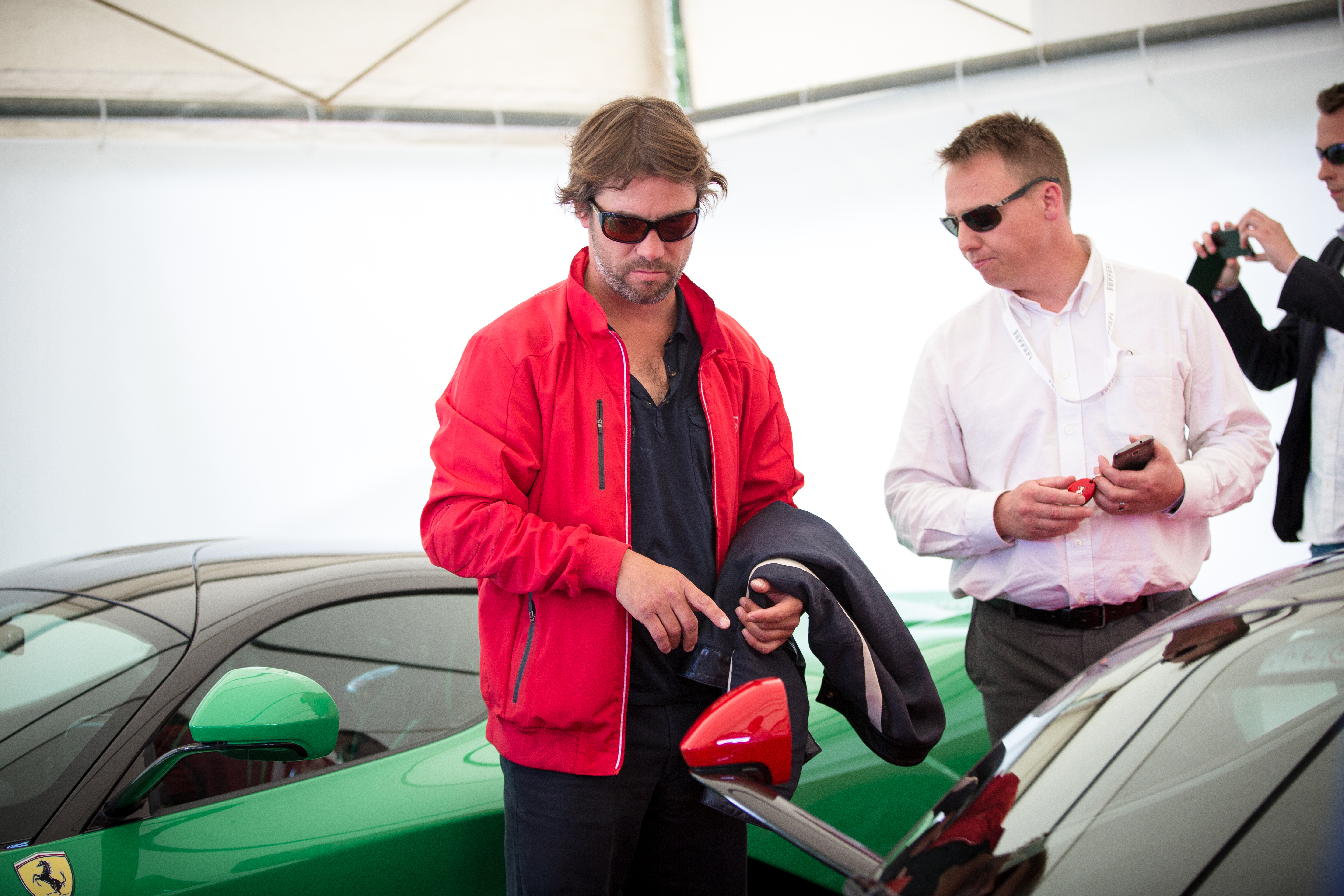 Jay Kay of Jamiroquai by his green LaFerrari at the 2014 Goodwood Festival of Speed.